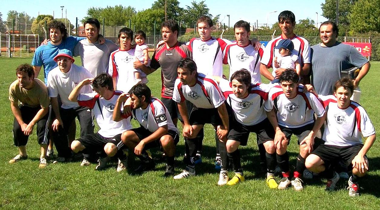 Atlético-Defensores, a football team from Ayacucho, Buenos Aires, nicknamed "La Fusión (The Fusion)" due to it was formed by the merge of Club Atlético Ayacucho and Club Defensores Ayacucho.